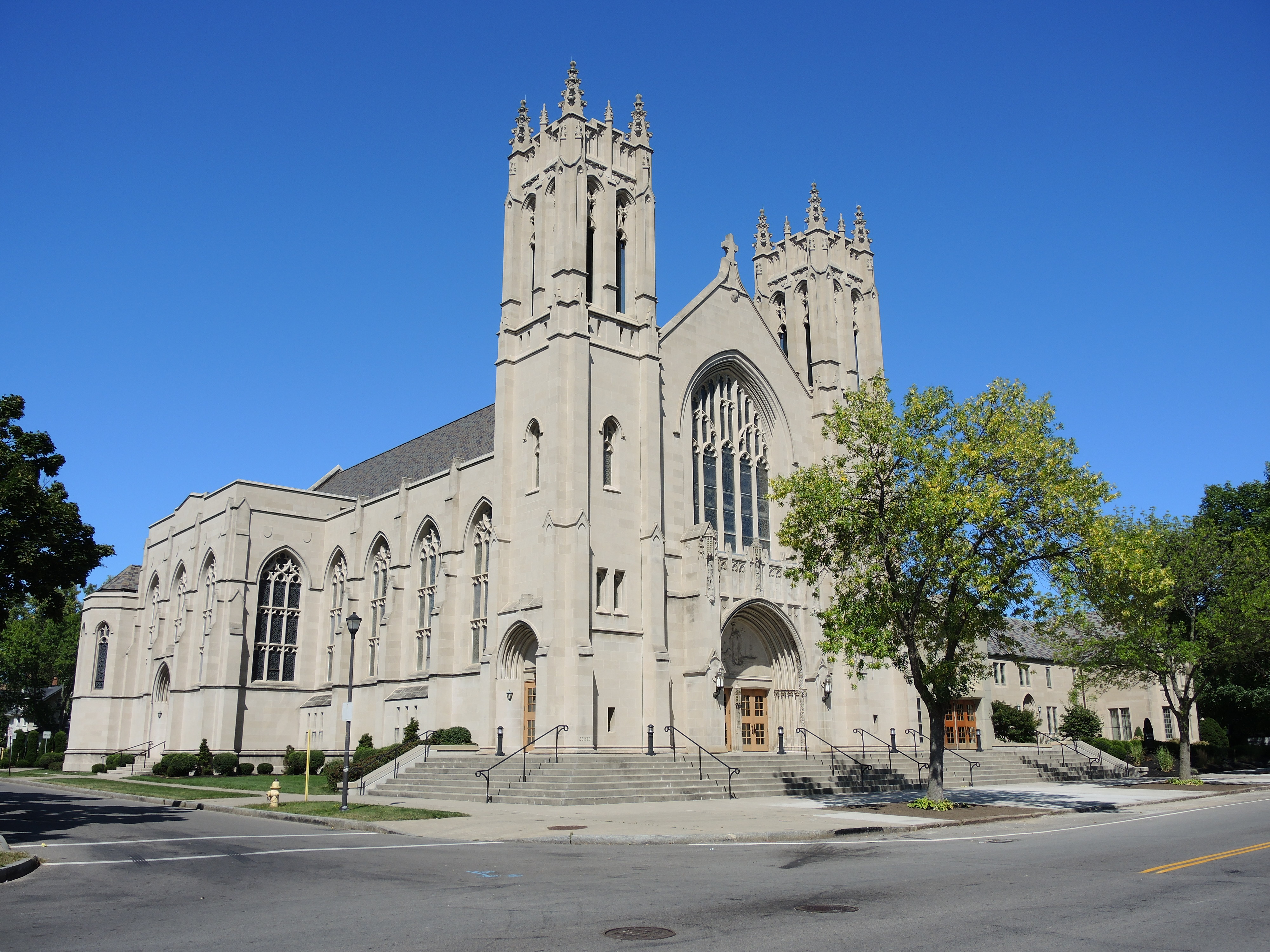 View of Sacred Heart Cathedral (Rochester, New York) in Rochester, New York from the west